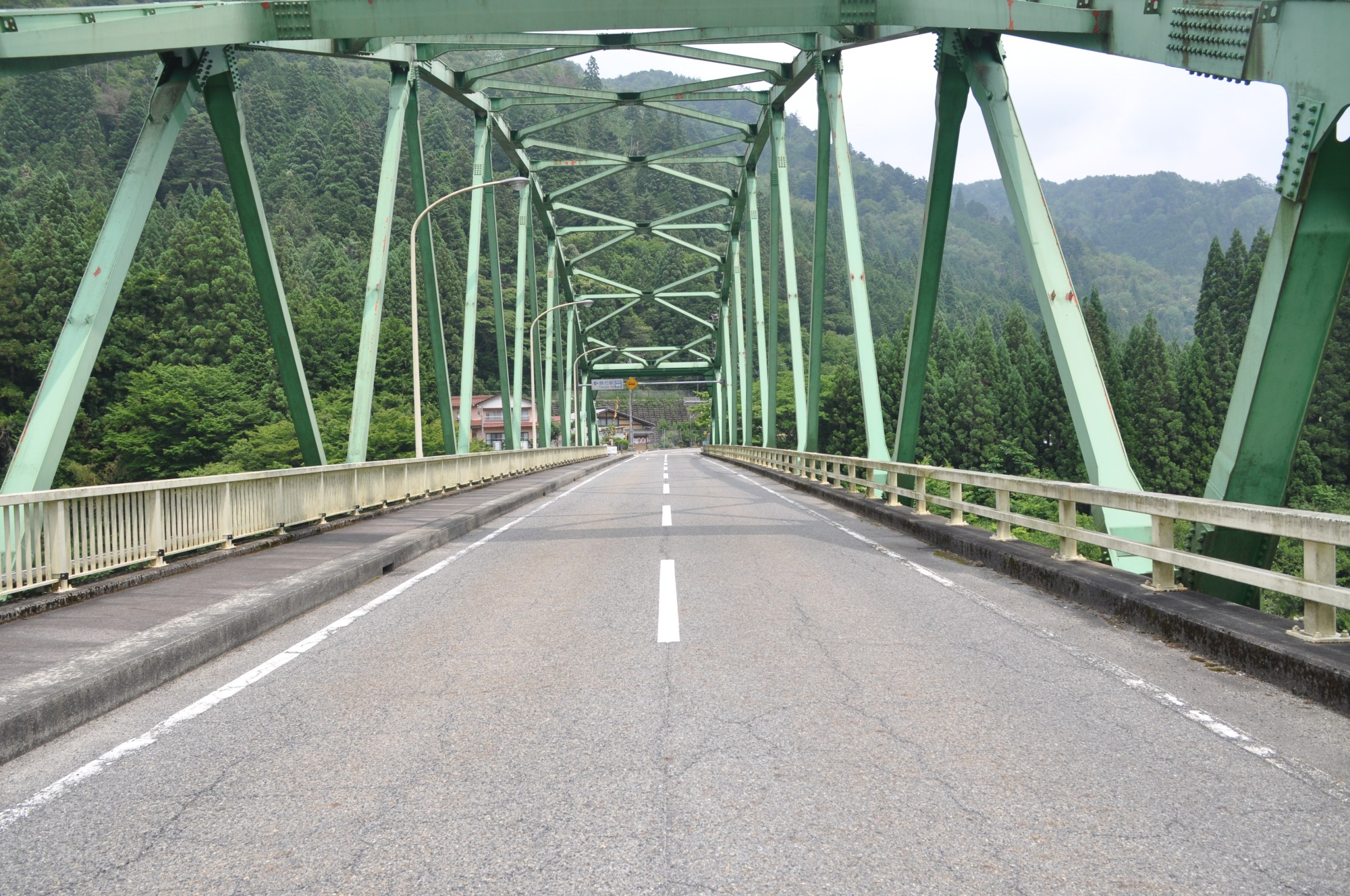 Nakahara Bridge over the Hida River on the Gifu Prefectural Road Route 432 in Seto, Gero City